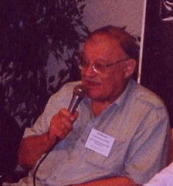 Jazz clarinetist Joe Muranyi. Muranyi speaking at Satchmo Summerfest in New Orleans. Lousy photo taken at wrong stop for the light uploaded because no better free licensed photo of subject found.